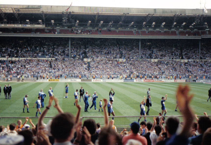 May 20th 1990, and Bristol Rovers take a lap of honour after the Leyland Daf Cup Final against Tranmere at Wembley. Tranmere won the game 2-1 thanks to goals from Ian Muir and Jim Steele, with Devon White scoring for Bristol Rovers. Nonetheless it was a major achievement for the Pirates to reach a Wembley final and the 1989/90 season brought much greater success than any realistic Rovers fan could have dreamed of.